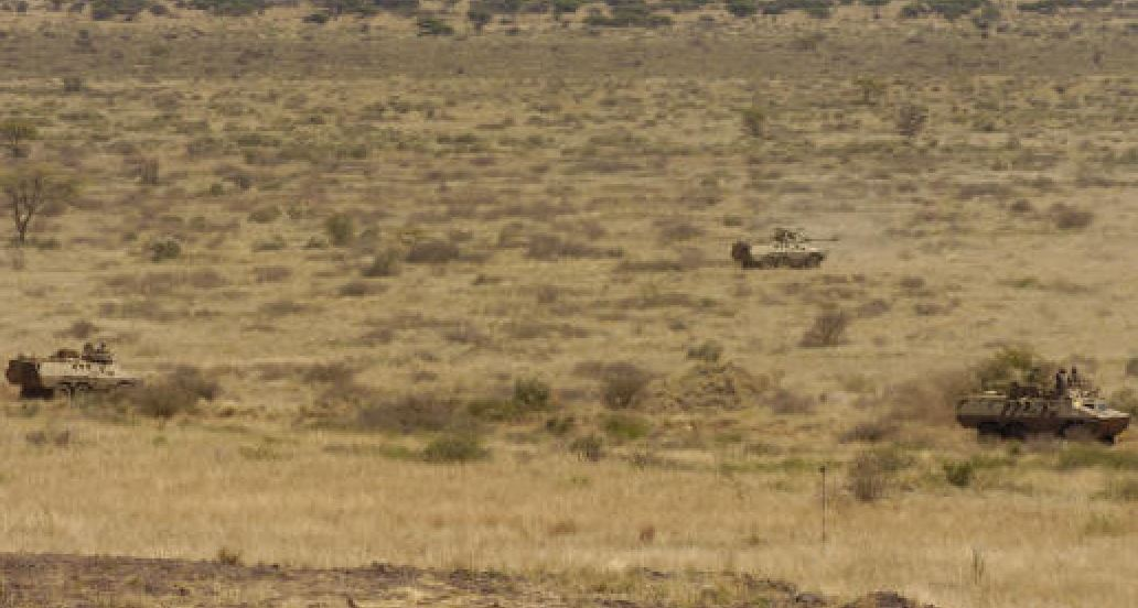 Ratels IFVs on manuvere